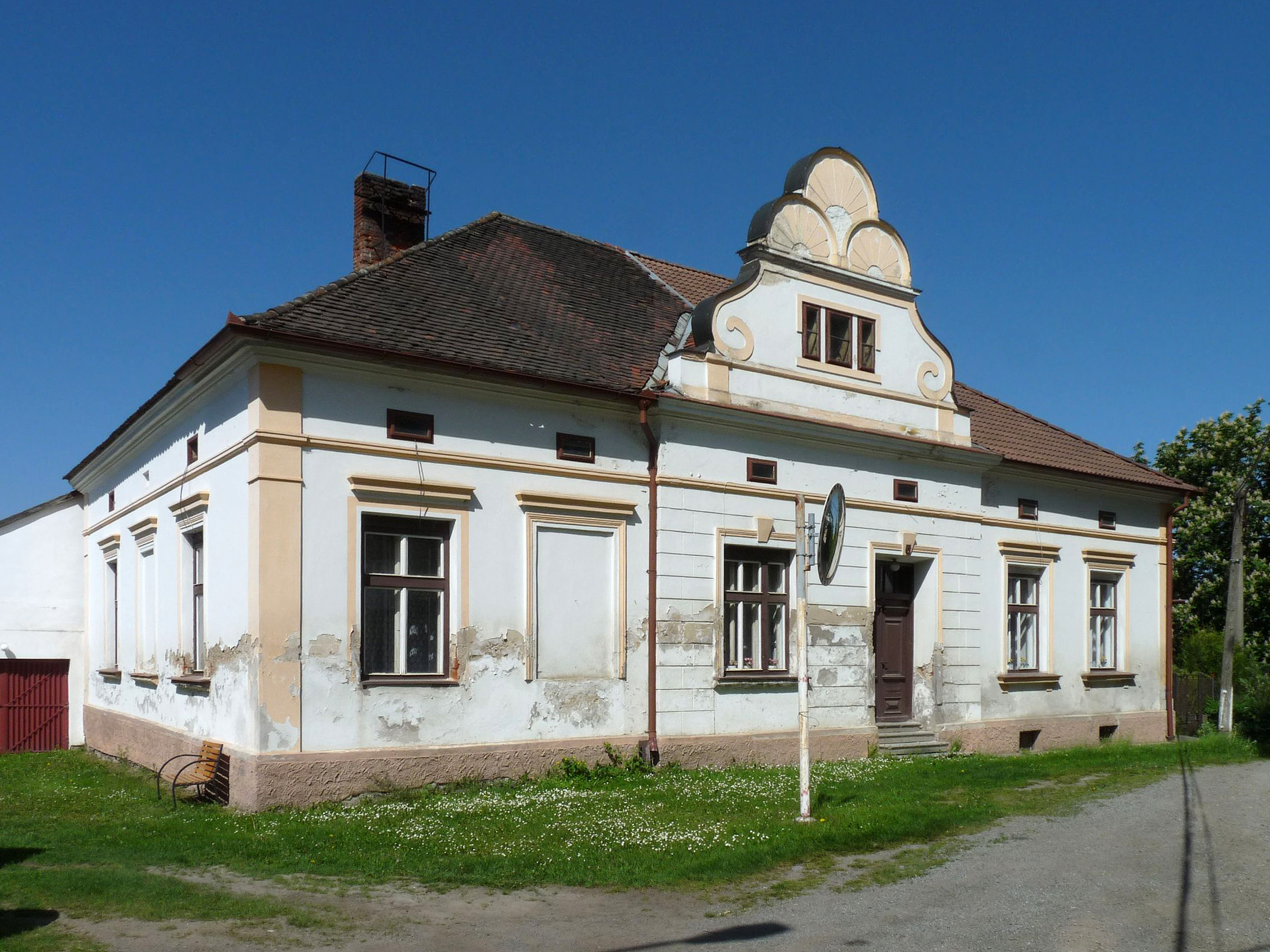 House No 5 in the village of Hroby, Tábor District, South Bohemian Region, Czech Republic, part of the municipality of Radenín.